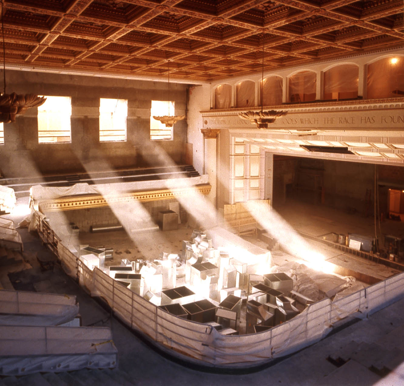 Taken within the auditorium of Royce Hall during the Seismic Renovation, after the Northridge Earthquake.